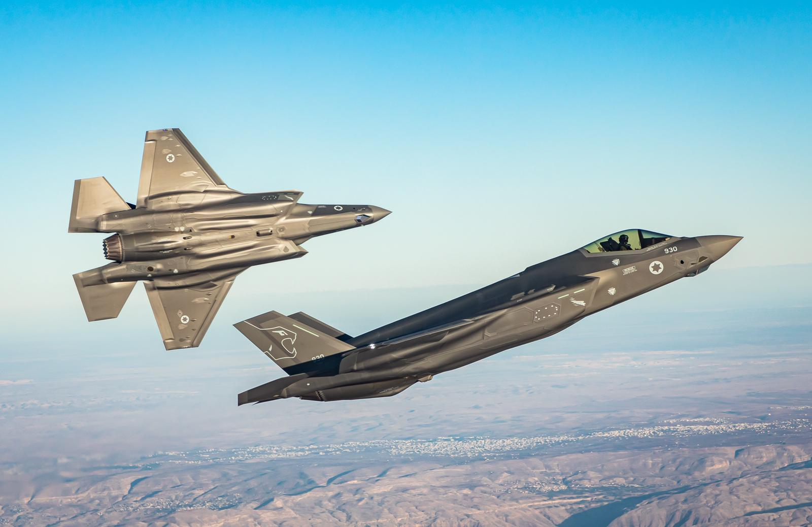 IDF’s new stealth squadron. “The Southern Lions”.